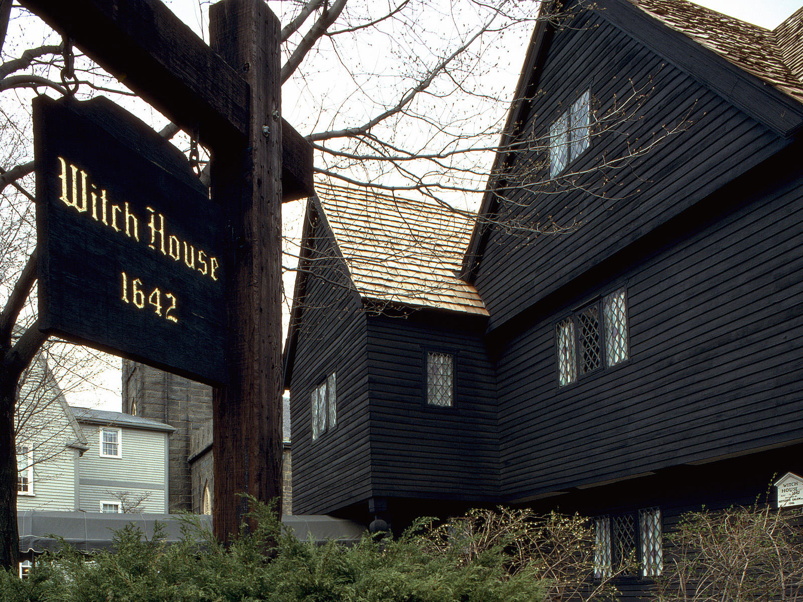 The Salem Witch house of Salem Massachusetts. It is the only house directly connected to the Salem Witch Trial.